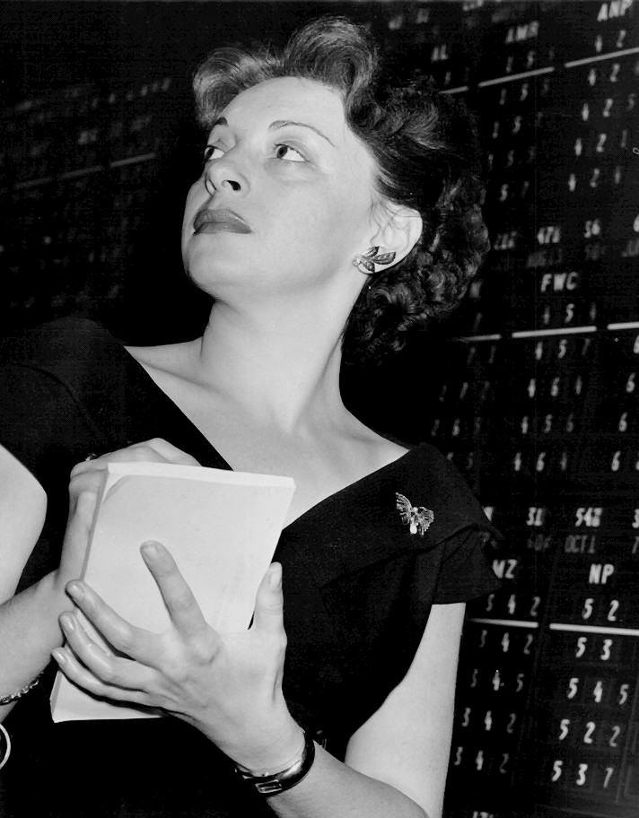 Photo of actress and former wife of John Barrymore Elaine Barrie at work in a Wall Street brokerage in 1951. A renewal search was done at . There were no renewals listed for the Corpus Christi Caller-Times-only original registrations from 1991 onward. There's no evidence of renewal for the 1952 issues of the newspaper. Note the uploaded photo is a larger, better quality copy of the newspaper photo.